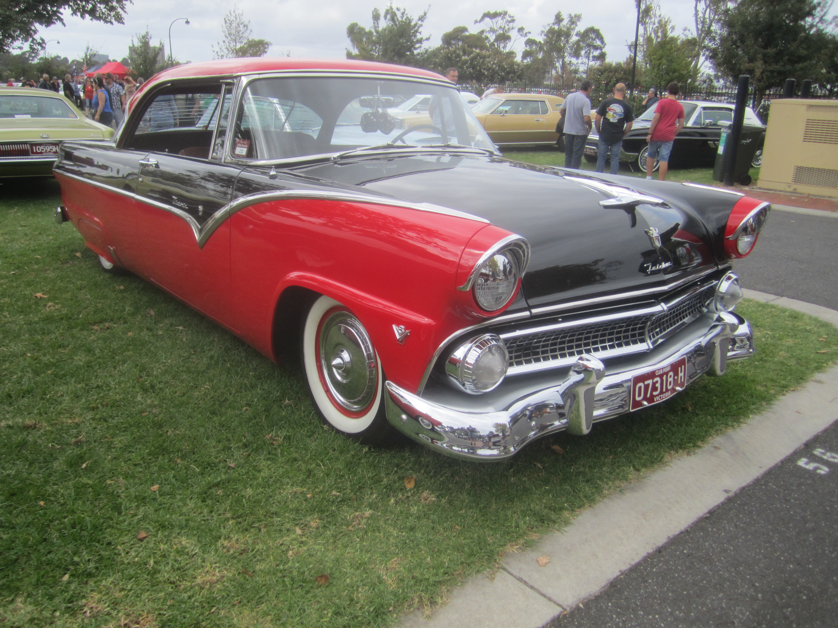 New body for 1955 with wrap around windshield, but similar to the 1952 Fords underneath. Factory air conditioning was now available. Available in Mainline (base), Customline (mid), and Fairlane (top)-replacing the Crestline. also the pillarless Victoria 2 and 4 door, Crown Victoria Coupe (with chrome band across roof), Acrylic Roof Skyliner and Convertible Sunliner, Country and Ranch Wagons, V8 Customline Sedan and Mainline Utility Produced in Australia. Engines; 223 6 cyl OHV or 162hp 272 and 193hp 292 Y block V8s